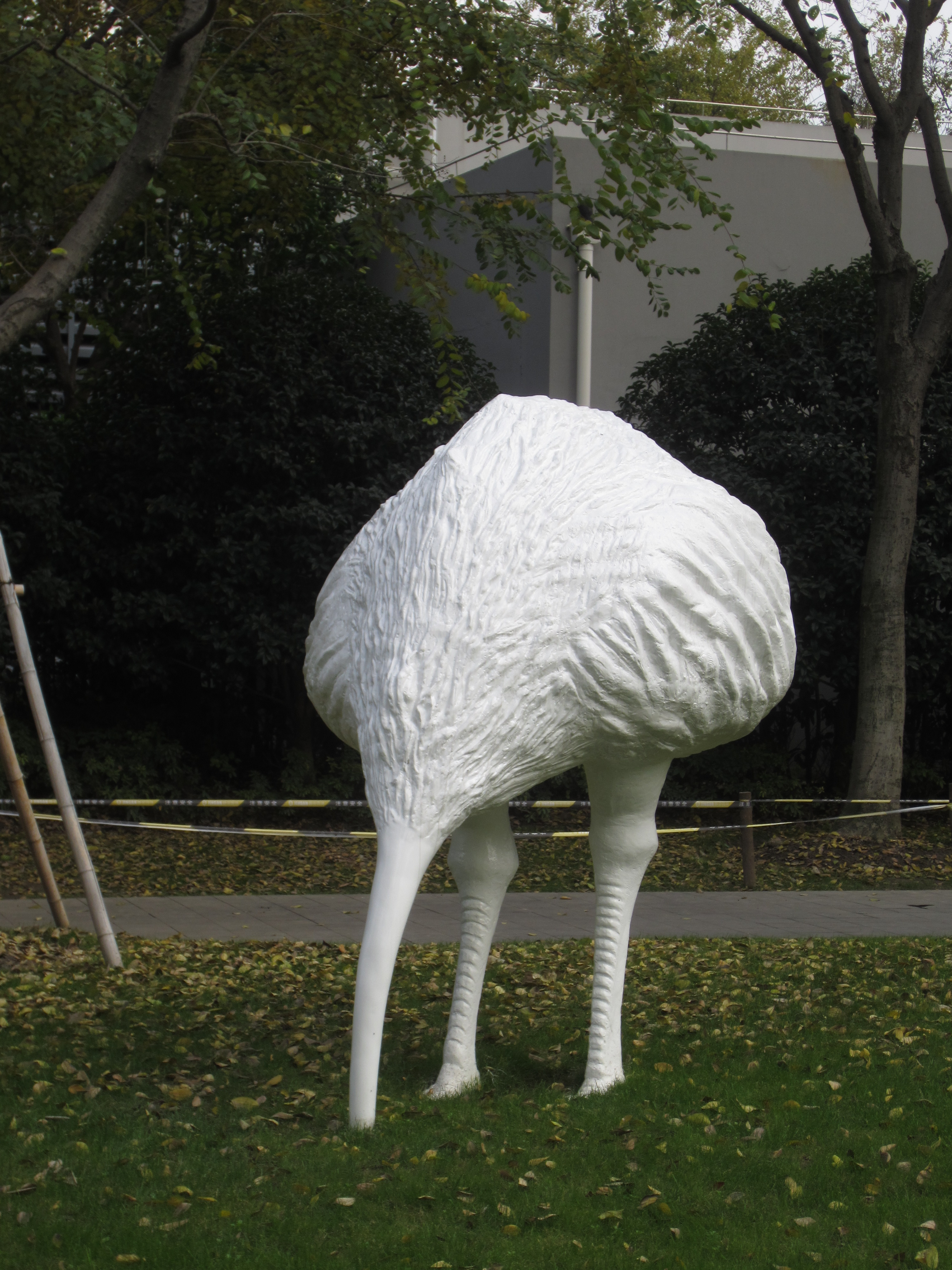 Jing'an Sculpture Park, Shanghai, China (December 2015)